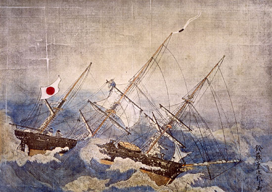 The Japan Society of Northern California will mark the 150th anniversary of the arrival of Japan’s first diplomatic mission to the United States with a major international symposium on the future role of the US-Japan partnership, and emerging regional and global common agendas. Do not miss this important event, which will examine the outlook for this 150-year-old “indestructible relationship” in its diplomatic, business and civil society dimensions.